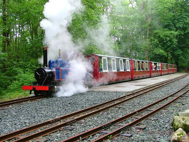 "Victoria" steaming out of Torosay Station on the Isle of Mull Railway